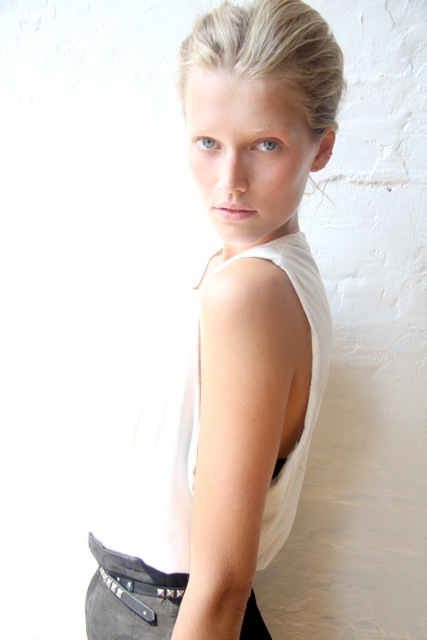 Mrs. Antonia "Toni" Garrn in her capacity as a photo and fashion model.